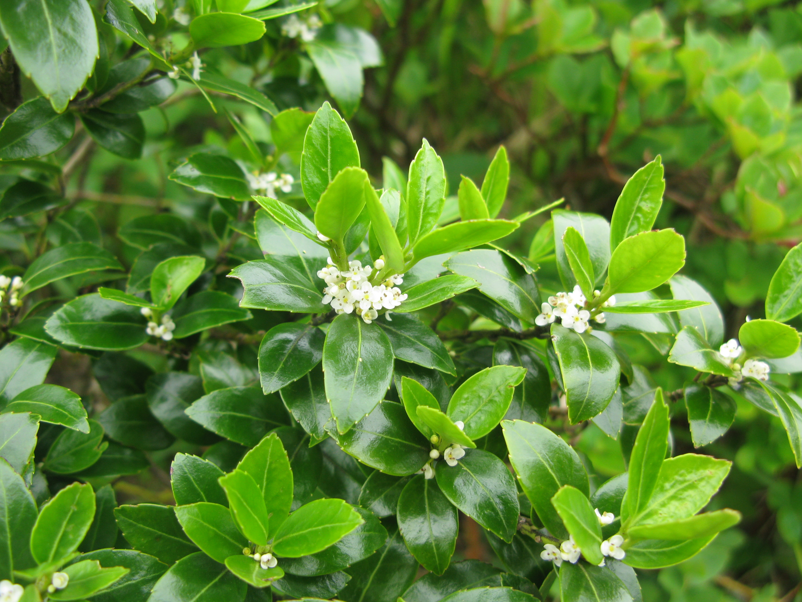 Ilex sugerokii var. brevipedunculata, Mt. Iide, Fukushima pref., Japan